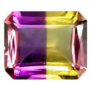 Ametrine or Bolivianite, semiprecious stone mixture of amethyst and citrine